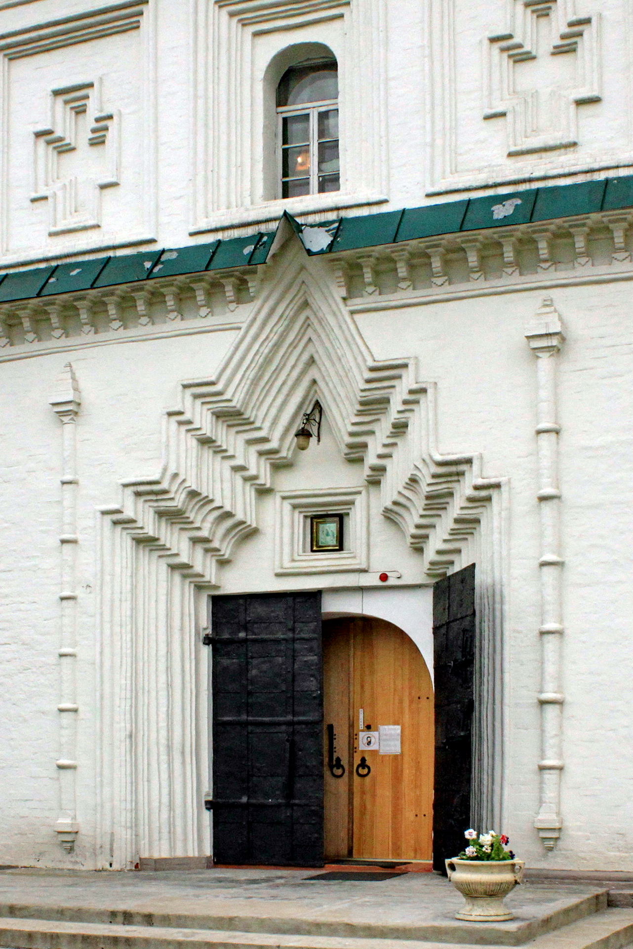 Holy Trinity church. Irkutsk, Russia.